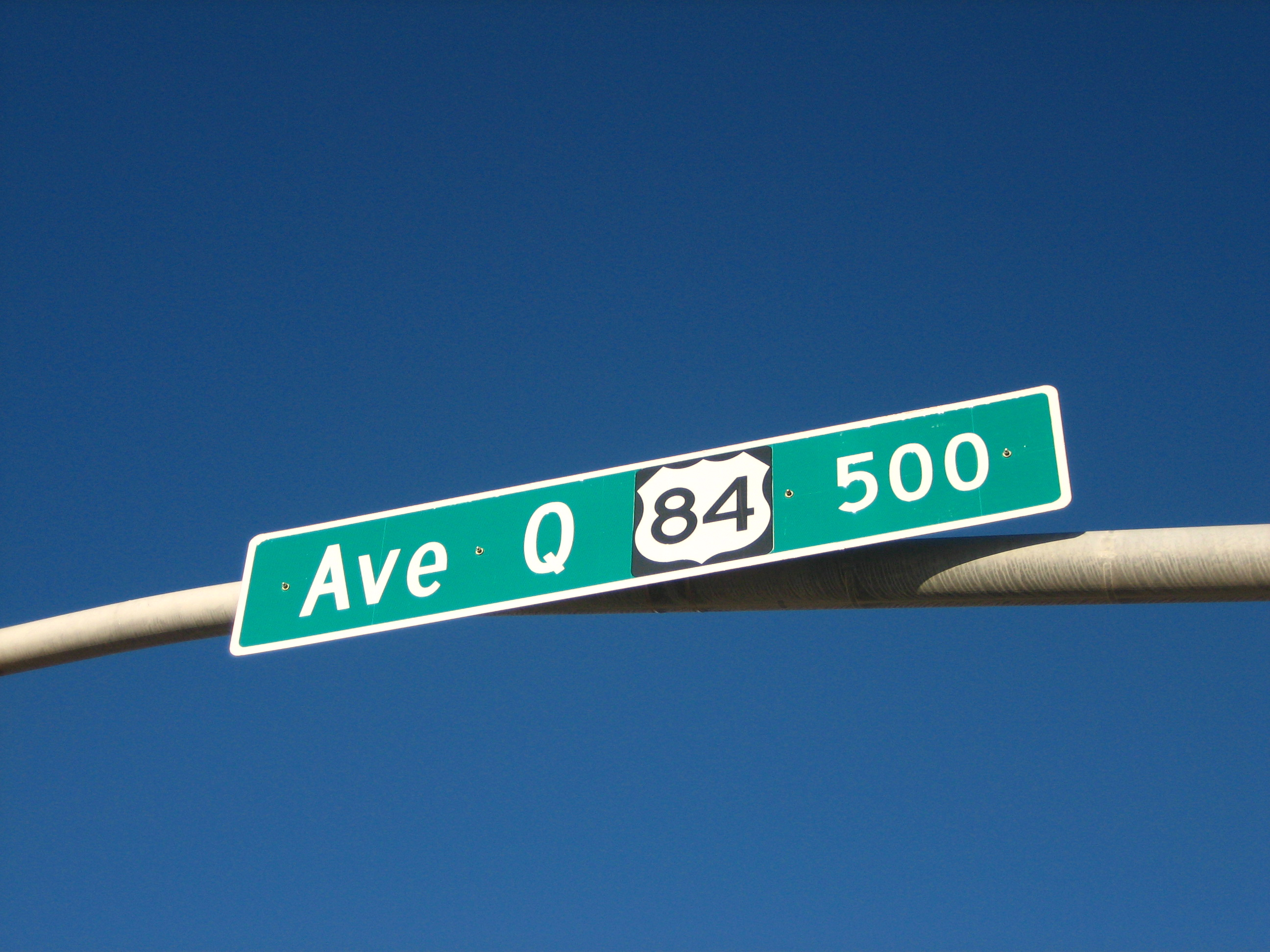 I took photo on April 5, 2009.Billy Hathorn (talk) 02:47, 18 April 2009 (UTC)